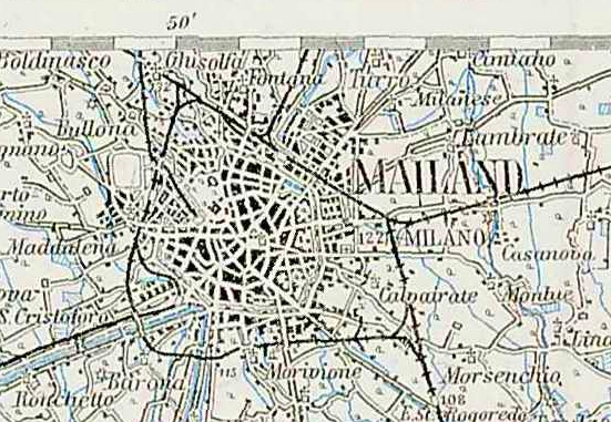 portion of map from "3rd Military Mapping Survey of Austria-Hungary - " showing area around Milano